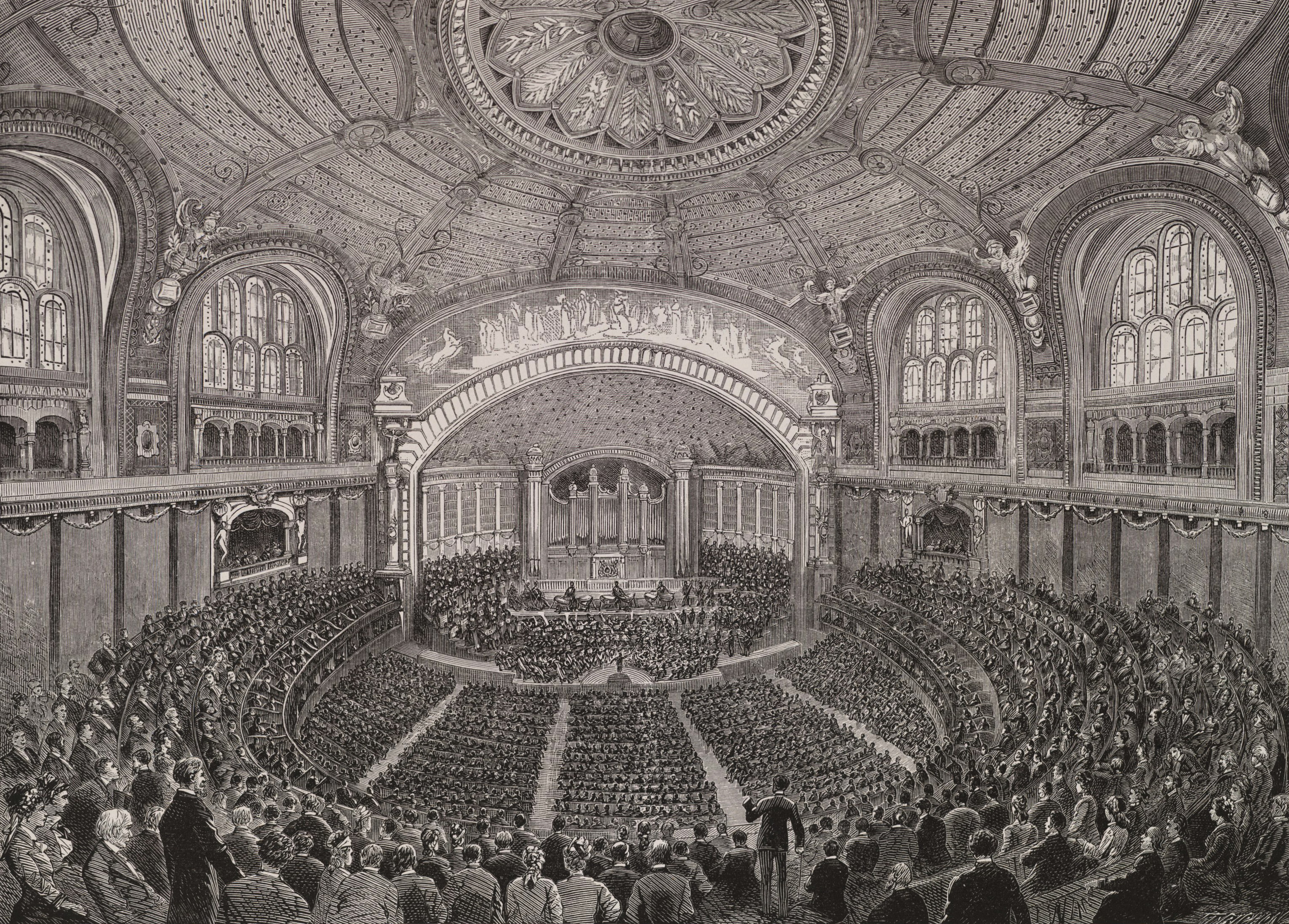 Central rotunda in the Trocadéro Palace. The Trocadéro had been designed specifically for the 1878 fair by the architects Davioud and Bourdais. The building had three parts: the monumental central rotunda (shown here in the image) served as a reception and concert hall which could contain about 5000 people. Two galleries on each side went from the rotunda to the outside of the building, and were inspired by St Peter's Piazza in Rome. The Palais was eventually damaged by a fire in 1935, and does not exist anymore today.